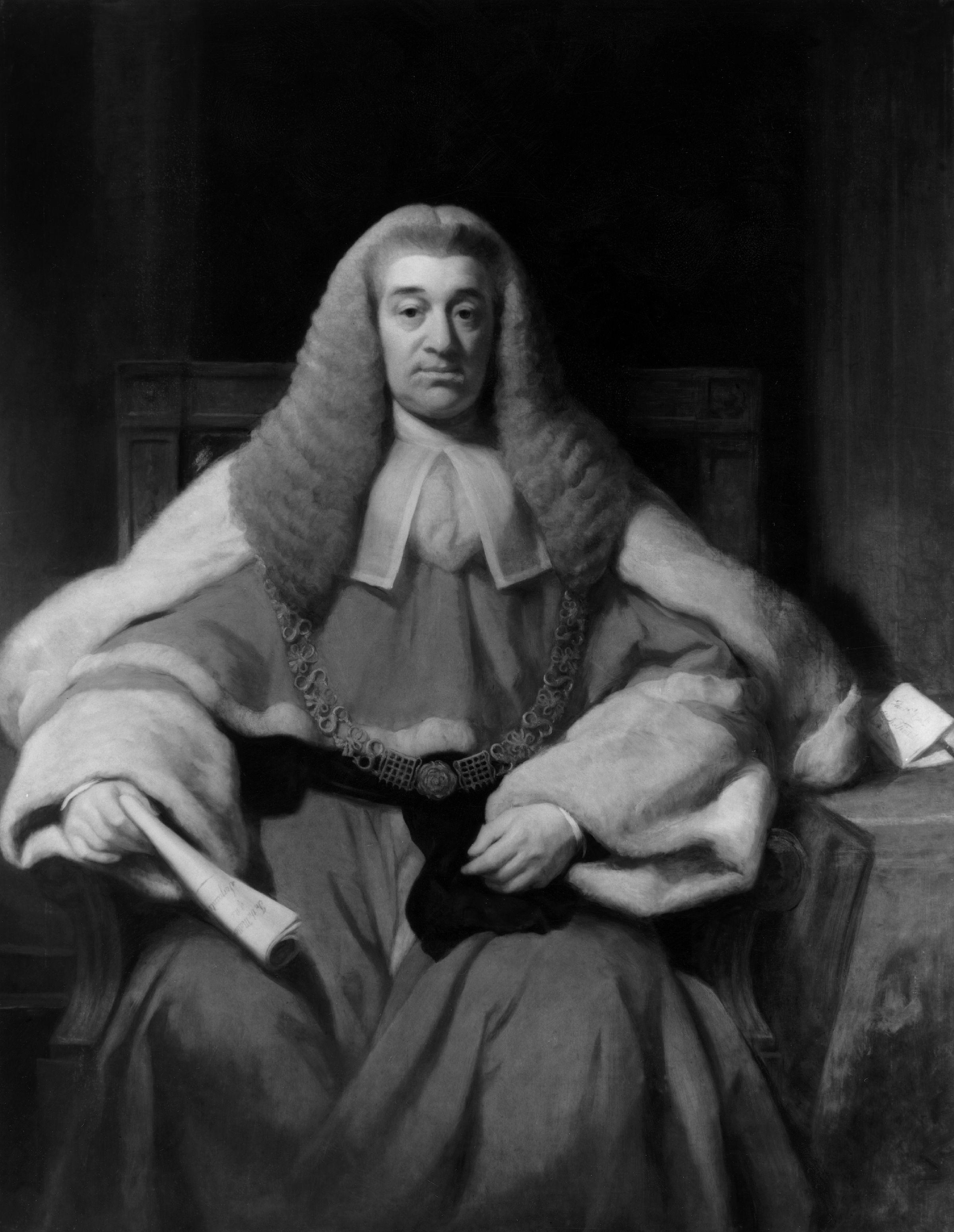 Sir Nicholas Conyngham Tindal, by Thomas Phillips (died 1845), given to the National Portrait Gallery, London in 1877. All images in this batch have been confirmed as author died before 1939 according to the official death date listed by the NPG.